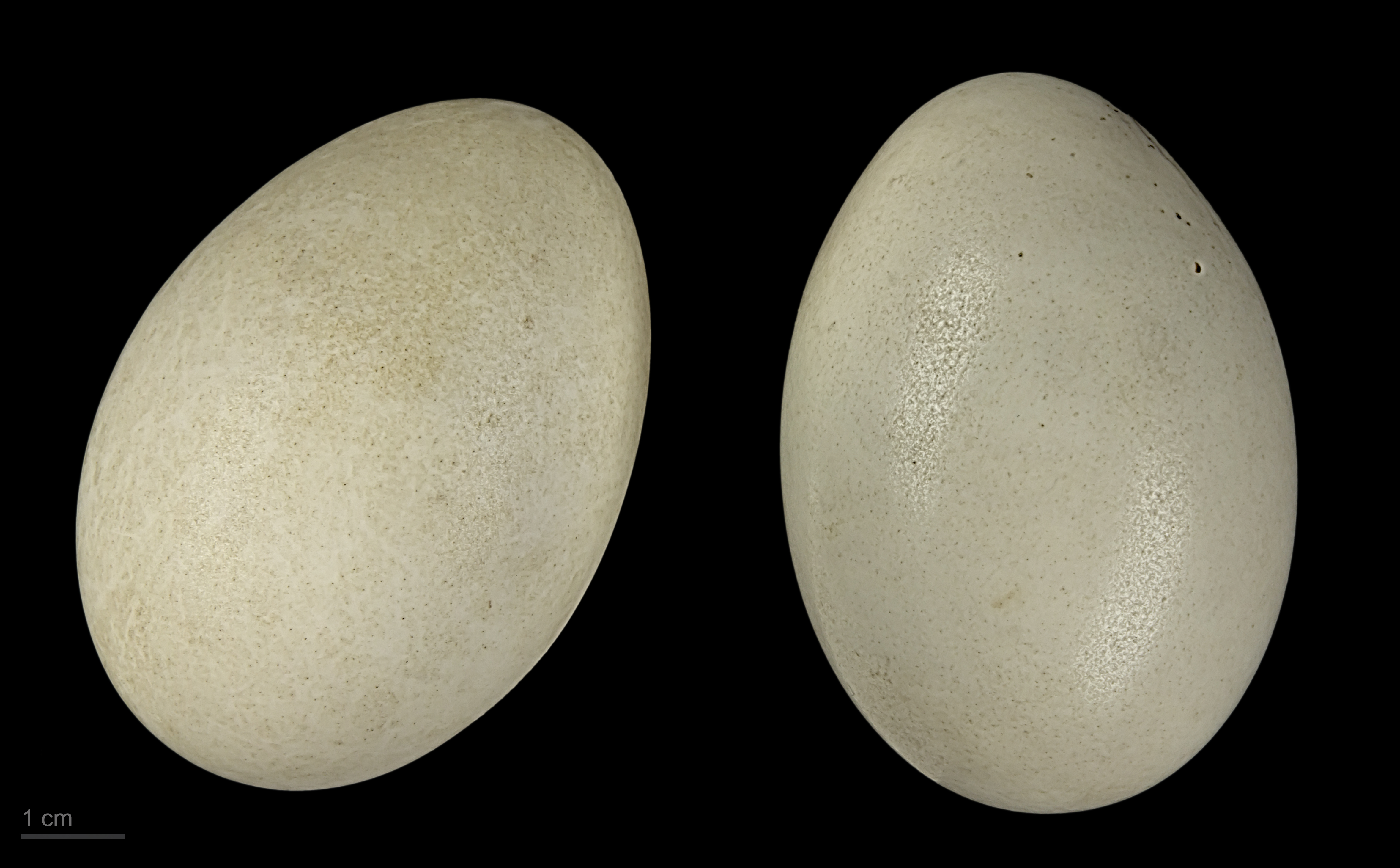 Eggs of South African shelduck Two specimens of the same spawn ; collection of Jacques Perrin de Brichambaut.